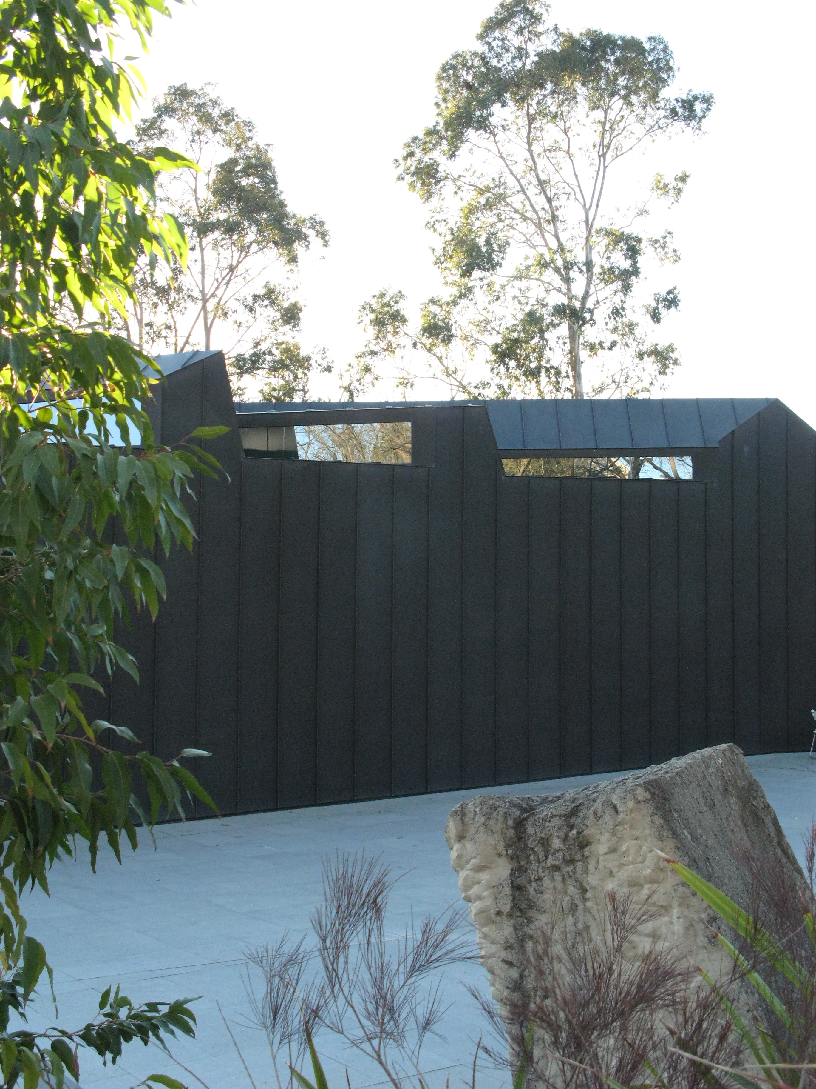 Heide III, in the Heide Museum of Modern Art, Bulleen, Melbourne, Australia. Photo taken by Nick carson in June 2009.